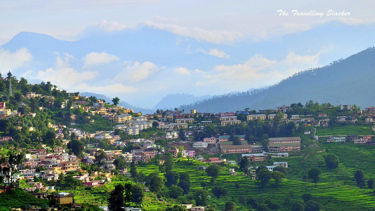 The Himalayan town of Almora Uttarakhand (Hindi: उत्तराखण्ड, Sanskrit:उत्तराखण्डराज्यम्), formerly Uttaranchal, is a state in the northern part ofIndia. Uttarakhand is mainly known for its natural beauty of the Himalayas, the Bhabhar and the Terai. On 9 November 2000, this 27th state of the Republic of India was carved out of the Himalayan and adjoining northwestern districts of Uttar Pradesh. Two important rivers of India originate in the region, the Ganga at Gangotri and the Yamuna at Yamunotri. It is home to many holy Hindu temples and pilgrimage centres found throughout the state. The natives of the state are generally called either Garhwali or Kumaoni depending on their place of origin. According to the 2011 census of India, Uttarakhand has a population of about 10 million. Nature scenes, town, cities of India